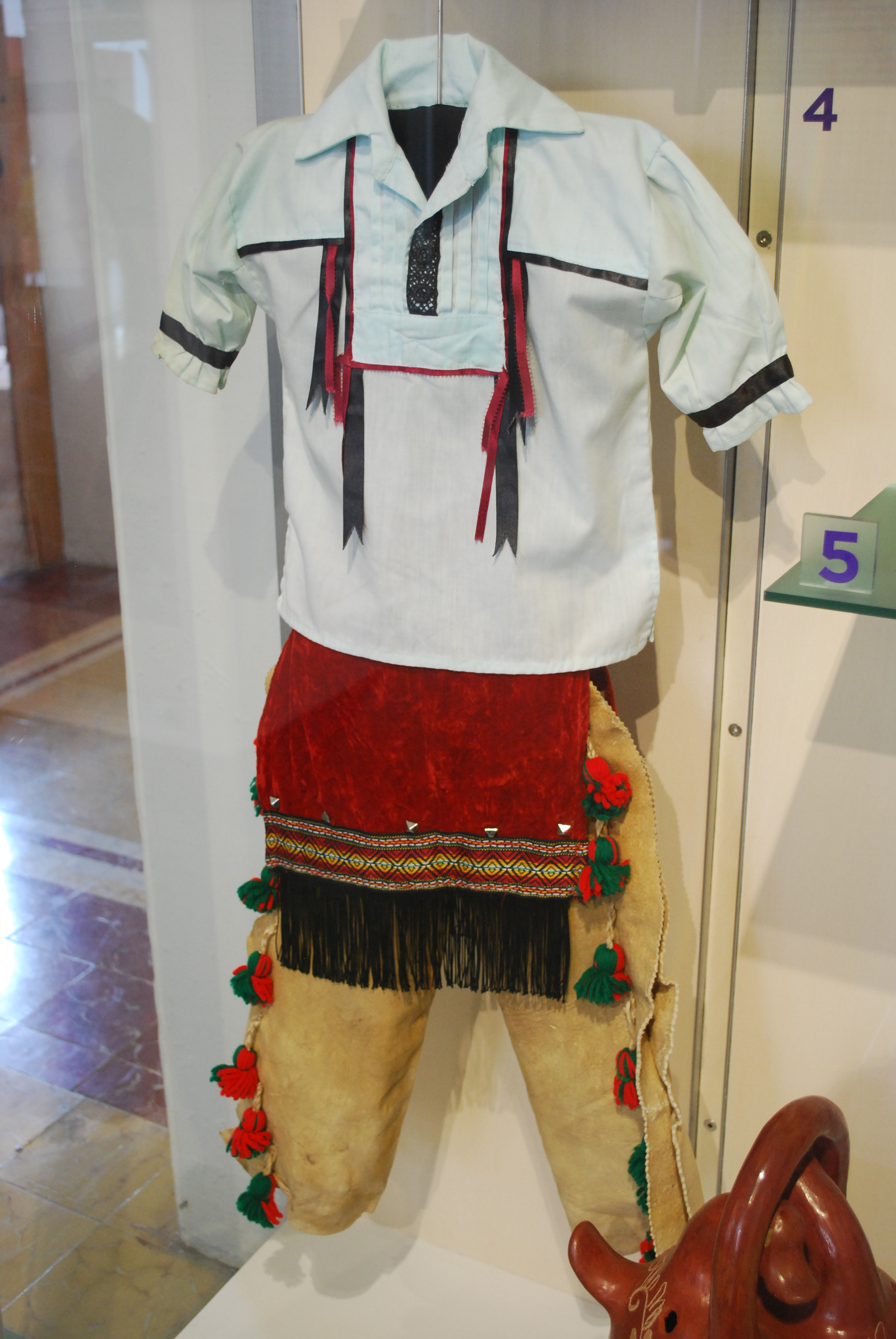 Kickapoo boy's ceremonial dress (2013) by Olga Garza from El Nacimiento, Muzquiz, Coahuila at the Centro de Desarrollo Artesanal Indígena in Santiago de Queretaro, Mexico